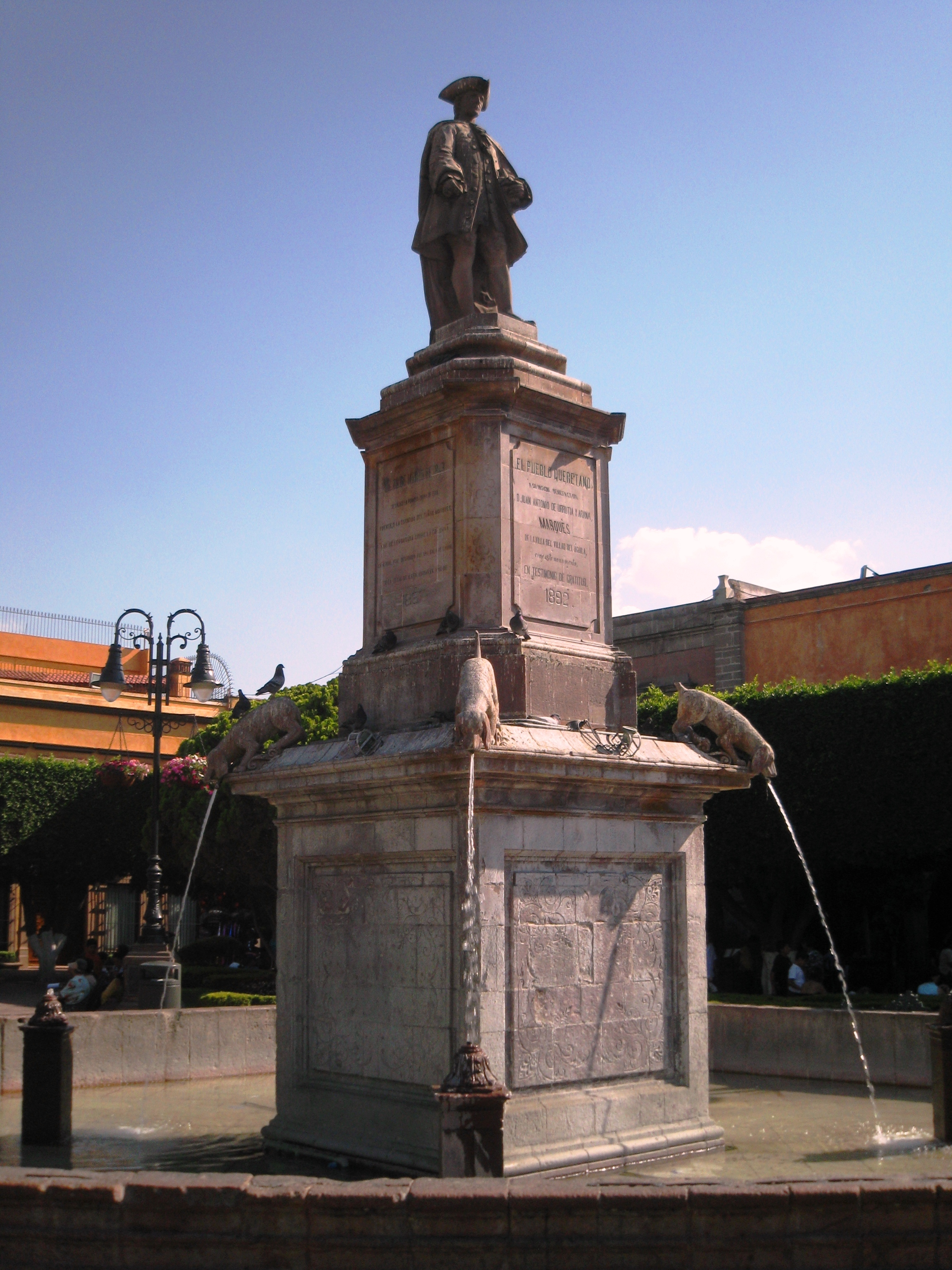 Fuente del marques en Querétaro